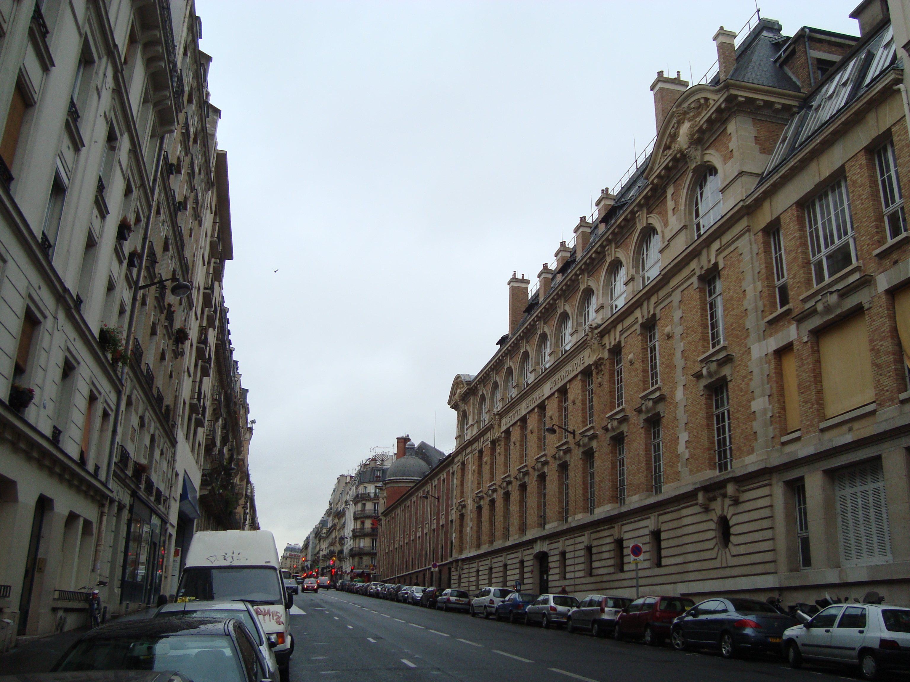 Rue Claude-Bernard in Paris 5e arrondissement